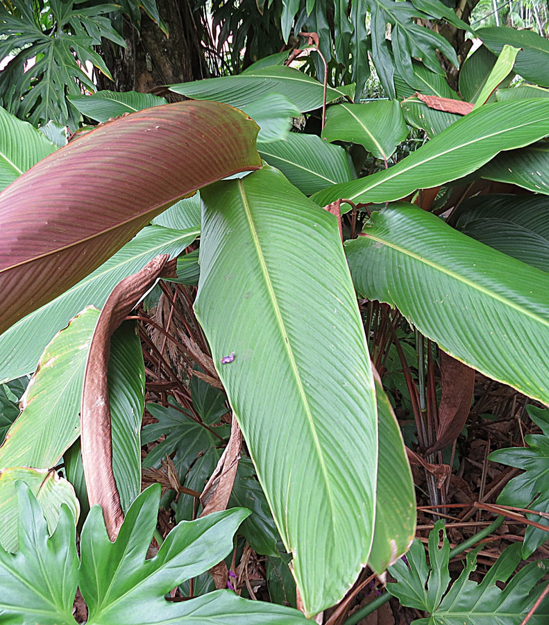 Wheat Calathea is found from Mexico to Ecuador, here planted at Summit Park in Panama. Fibers from this species are used by natives to weave baskets.